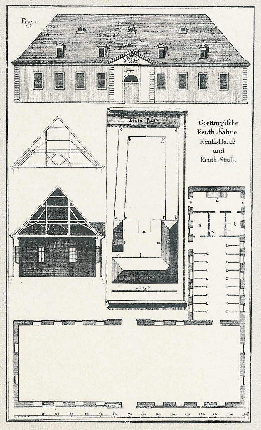 Sketch of Göttingen university riding school in the 18th century